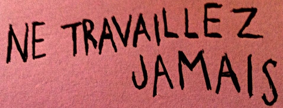 Reconstitution d'un graffiti de Guy Debord (1953)